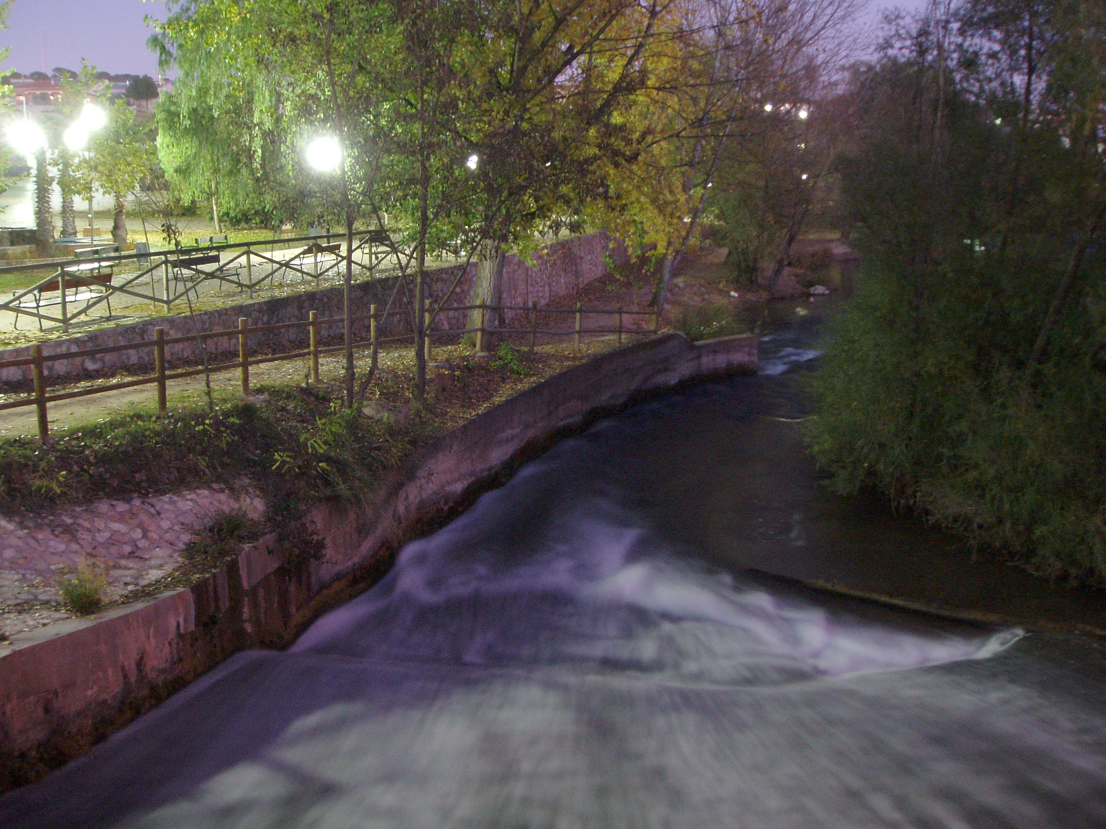 Jucar river through Villargordo del Jucar